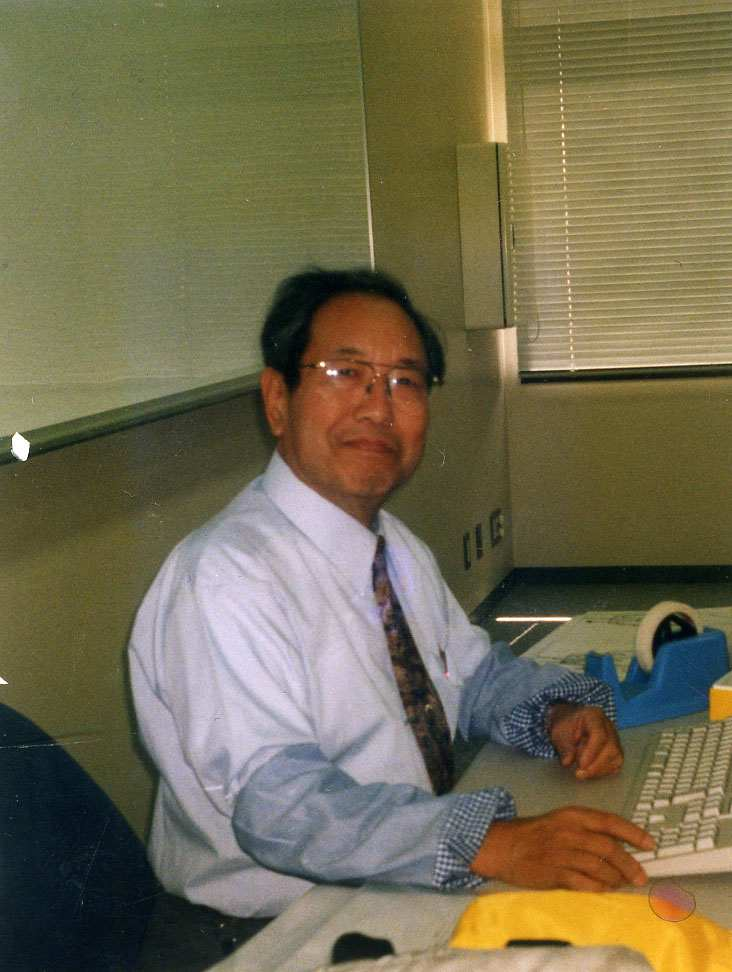 Photograph of Daihachiro Sato at work. Date of work is date of first publication of work.